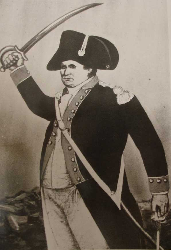 William Darke (1736–1801), general in the US Army.